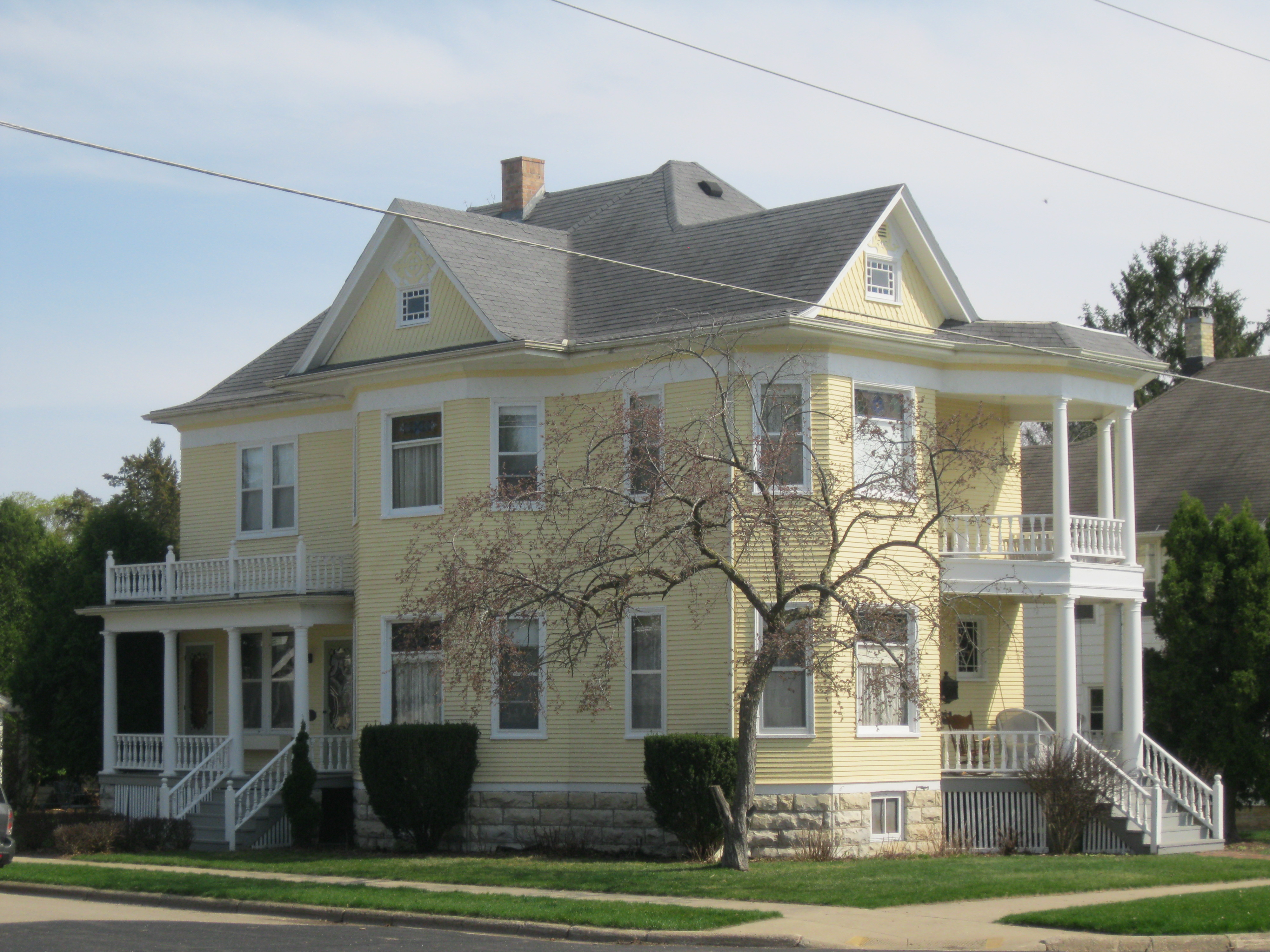 House at 201 South Franklin Street in the East Side Historic District in Stoughton, Wisconsin.